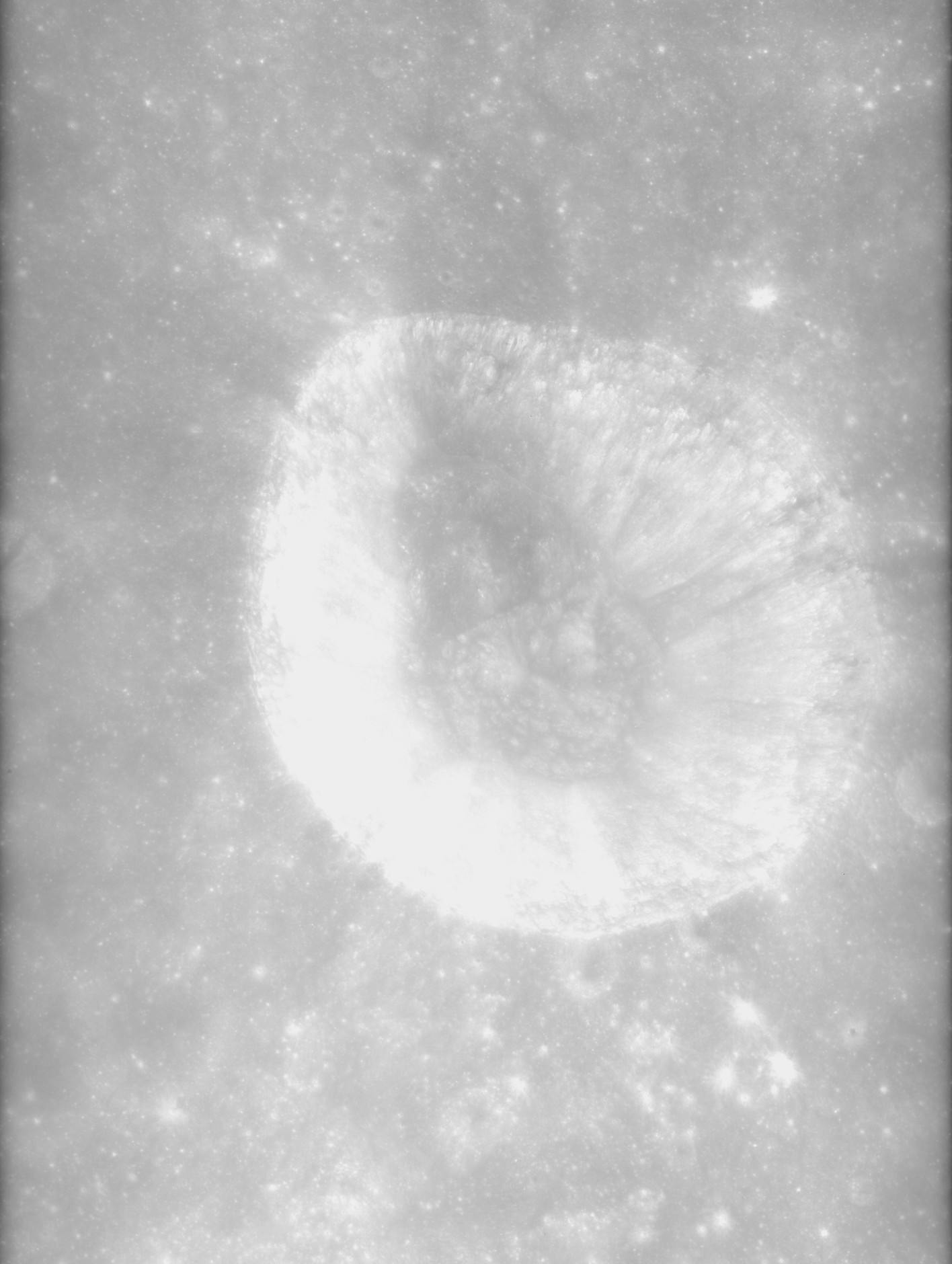 Oblique view of Geissler, on the moon, with north at top.